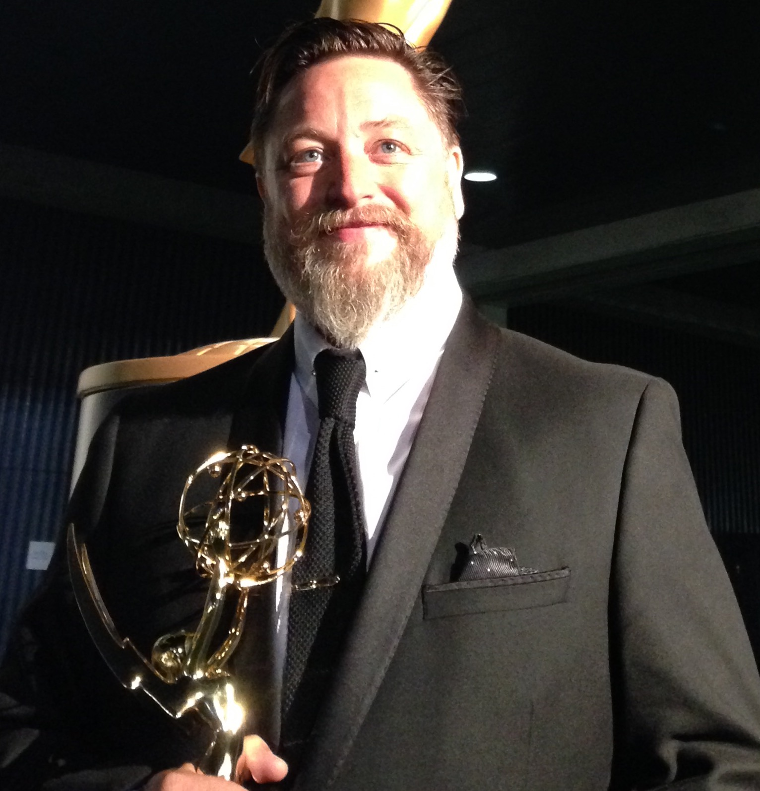 Tim Porter at the 68th Emmy Awards